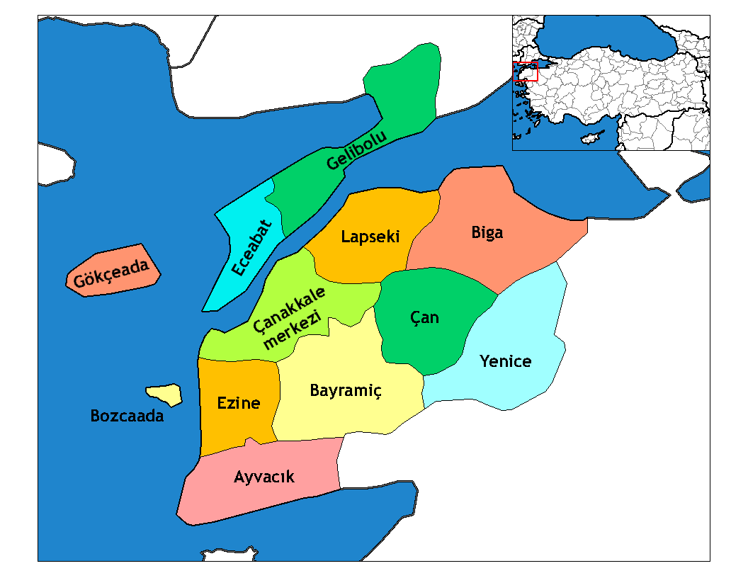 Map of the districts of Canakkale province in Turkey. Created by Rarelibra 19:28, 1 December 2006 (UTC) for public domain use, using MapInfo Professional v8.5 and various mapping resources. Edited by One Homo Sapiens Corrected text where İ,Ş,ı,ğ,or ş occurs in name. Source: [statoids-com]. Increased font size and enhanced color differences among adjacent districts.